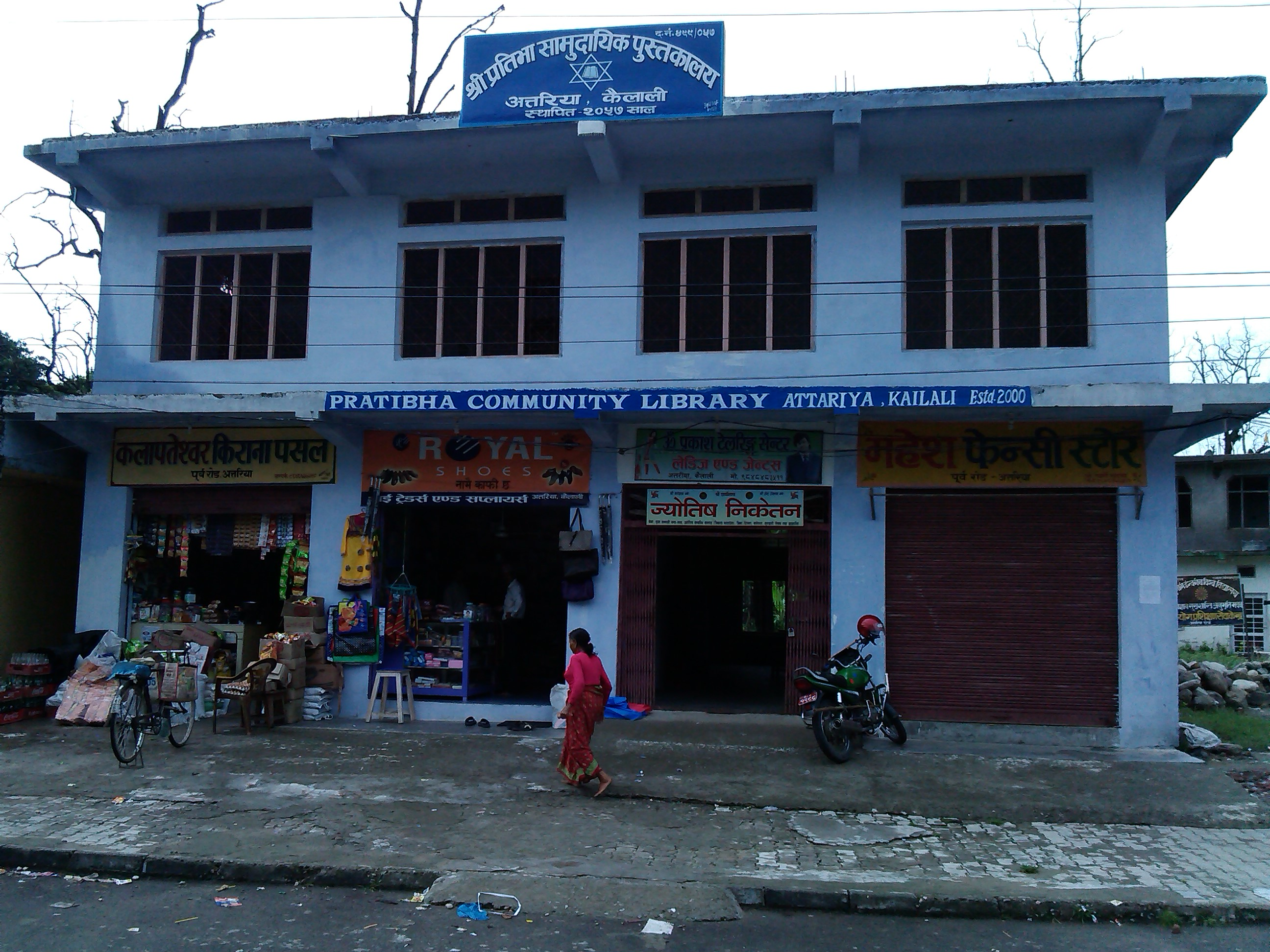 Pratibha Community Library at Attariya, Kailali.